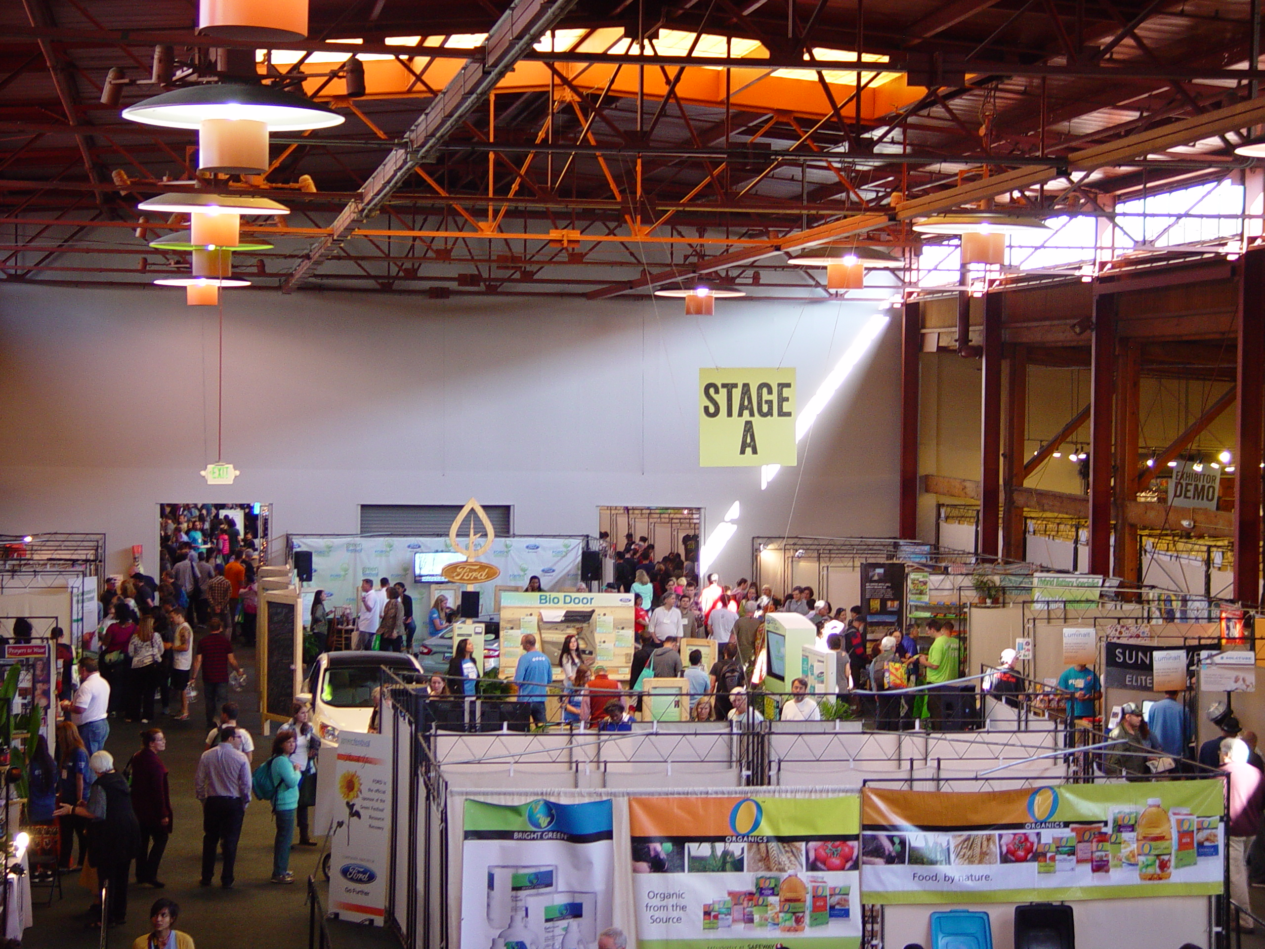 View of the San Francisco Green Festival, November 9, 2013